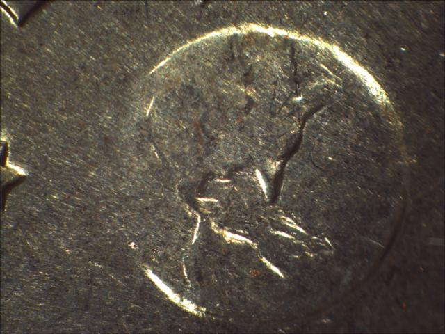 Detail from the reverse of a 1972 Eisenhower dollar, Type 2